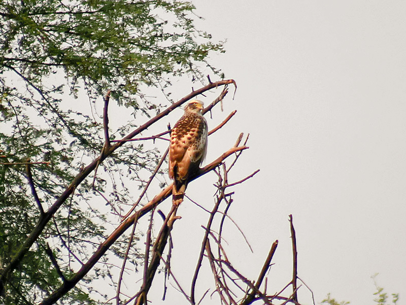 Crested Serpent Eagle Spilornis cheela Immature at Bharatpur, Rajasthan, India.